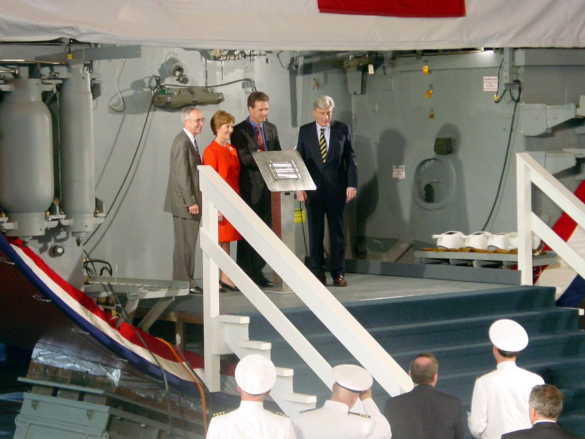 Newport News, VA (Jul 12, 2002) -- (Left to Right) The Secretary of the Navy Gordon R. England, First Lady Laura Bush, President of Northrop Grumman Newport News Thomas Schievelbein, and Senator John Warner (R-VA) celebrate an official ceremony to authenticate the keel of the next Virginia-class attack submarine Texas (SSN 775). The First Lady used chalk to mark her initials on a metal plate, which is then traced by a welder’s torch and permanently affixed to the stern of the boat. Texas is the second of the Virginia-class submarines with advanced technologies, increased firepower, maneuverability and stealth. She is scheduled for delivery to the Navy in 2005. U.S. Navy photo by Chief Journalist David Nagle. (RELEASED)